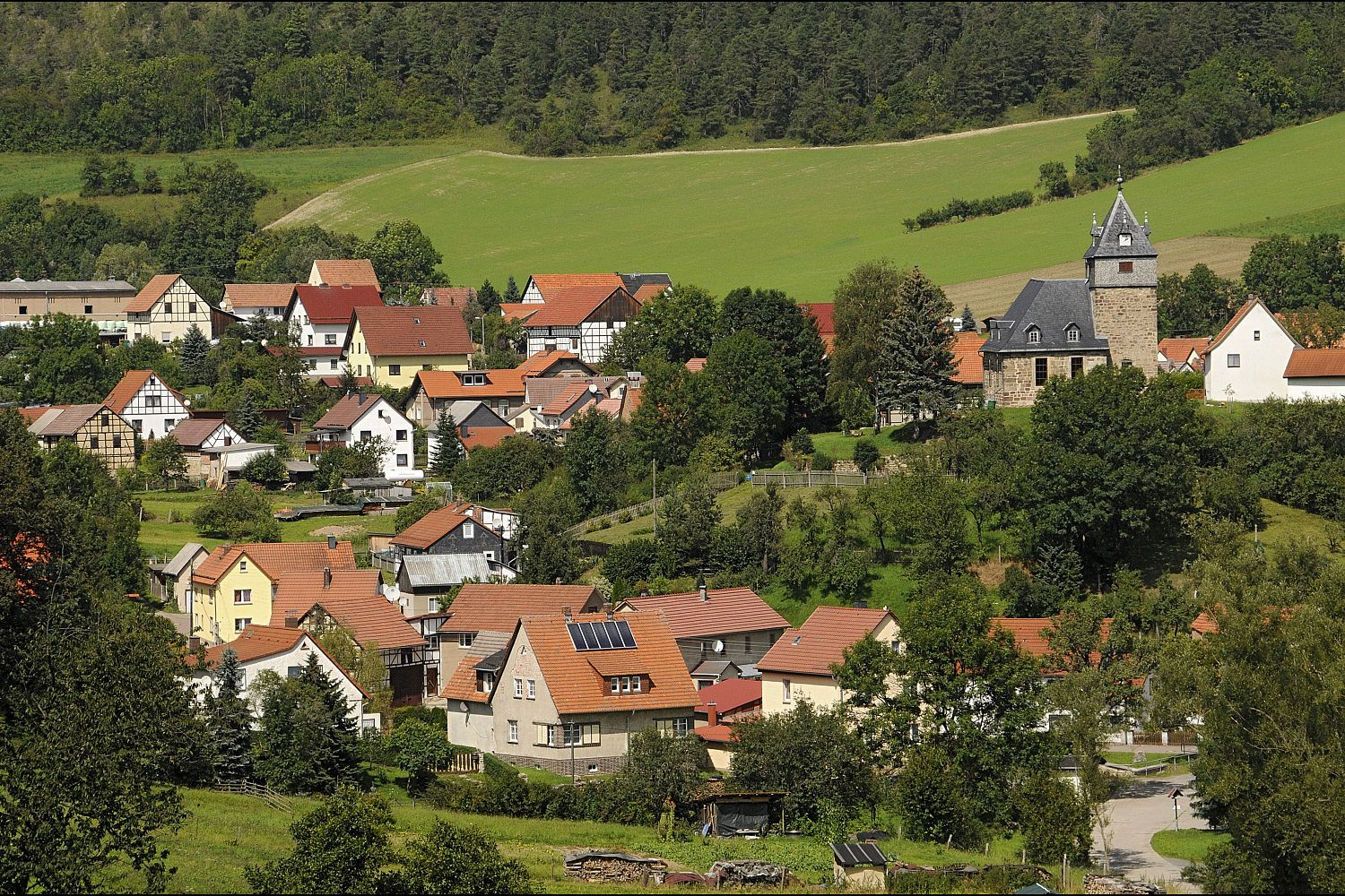 View on Solsdorf, Rottenbach, Germany